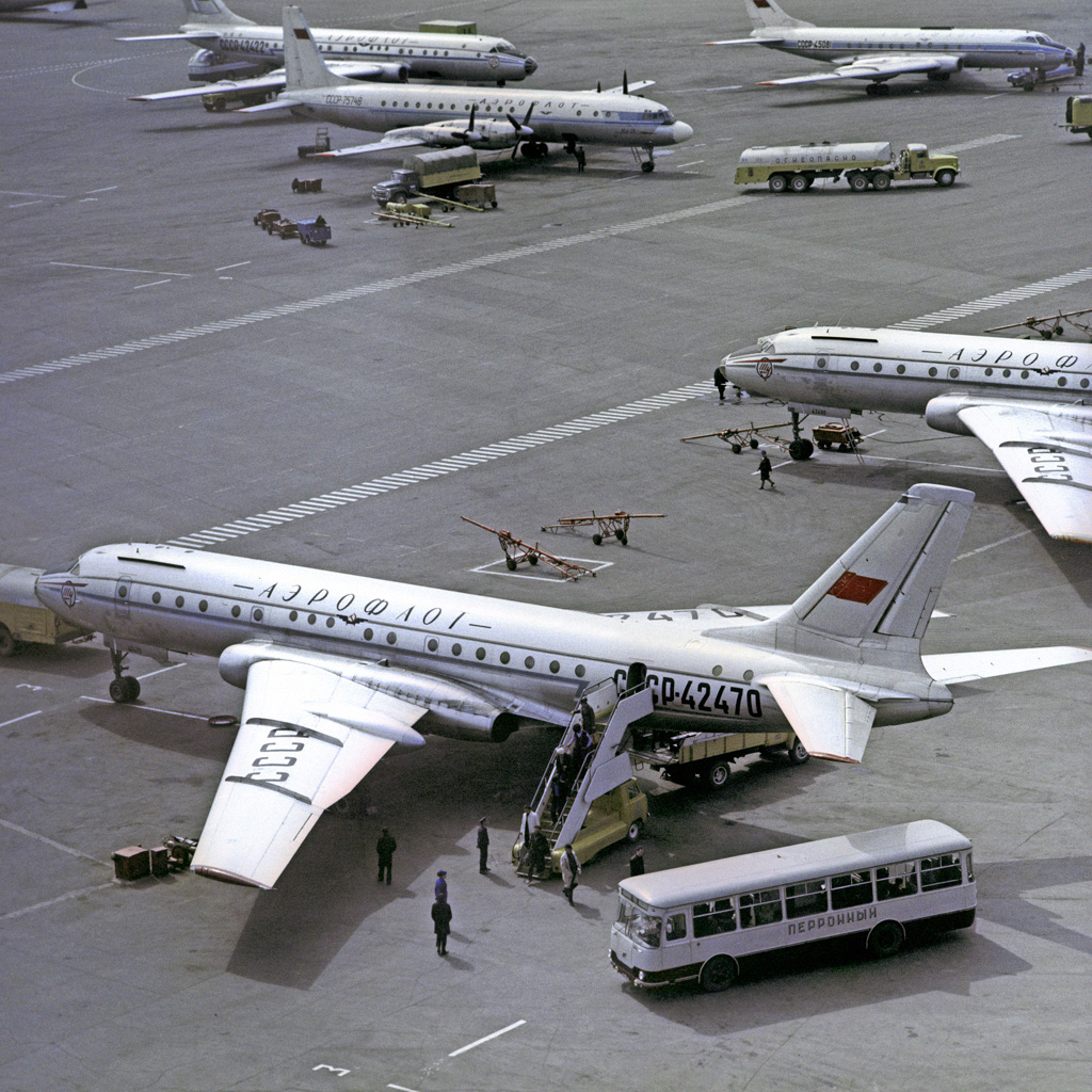 “Vnukovo Airport”. Airliners at Moscow's Vnukovo airport. 1971.